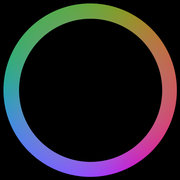 Color circle, intensity 54%, saturation about 70%